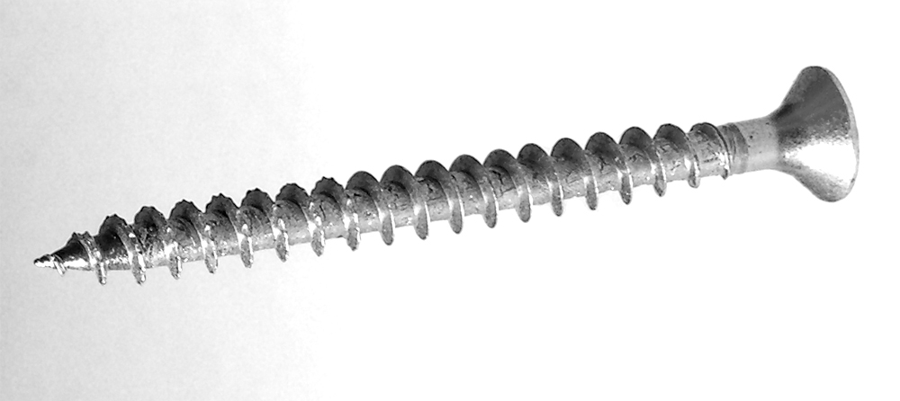 spax, screw